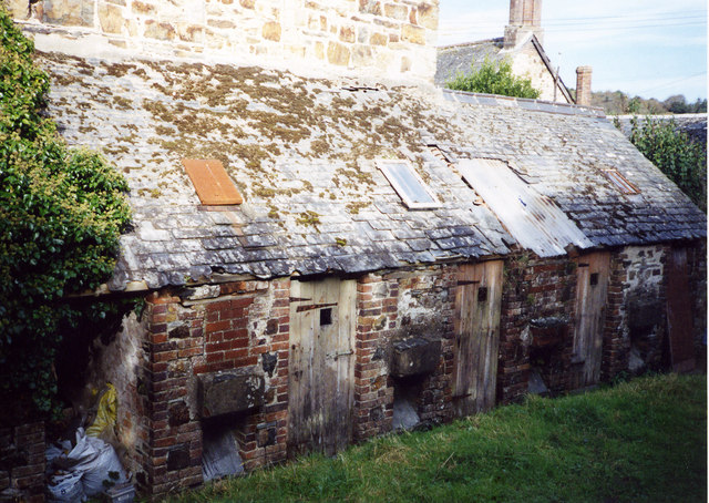 Vagrants' block, Cardigan workhouse These tiny lockups against an external wall of the main building were used for the overnight incarceration of individuals found wandering without means of support. Stonebreaking was the penalty and the finished product would be ejected down the chutes. Next day these tramps and beggars would be expected to find work or move on to the next Poor Law Union district.